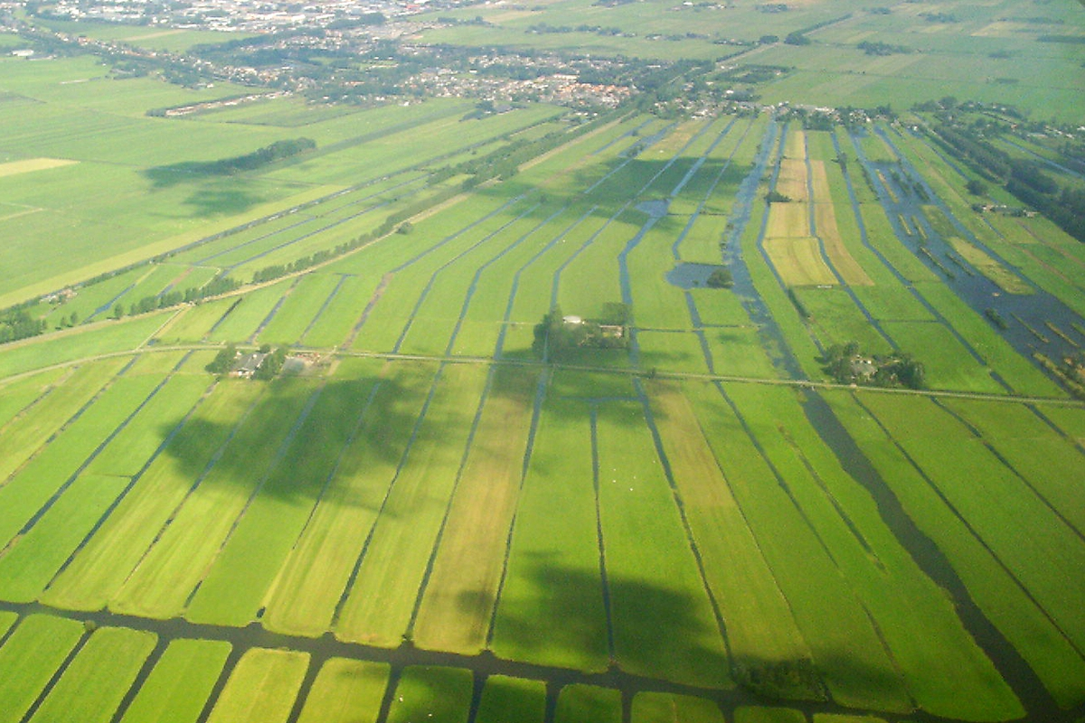 The old polder, south of Wilnis, Netherlands